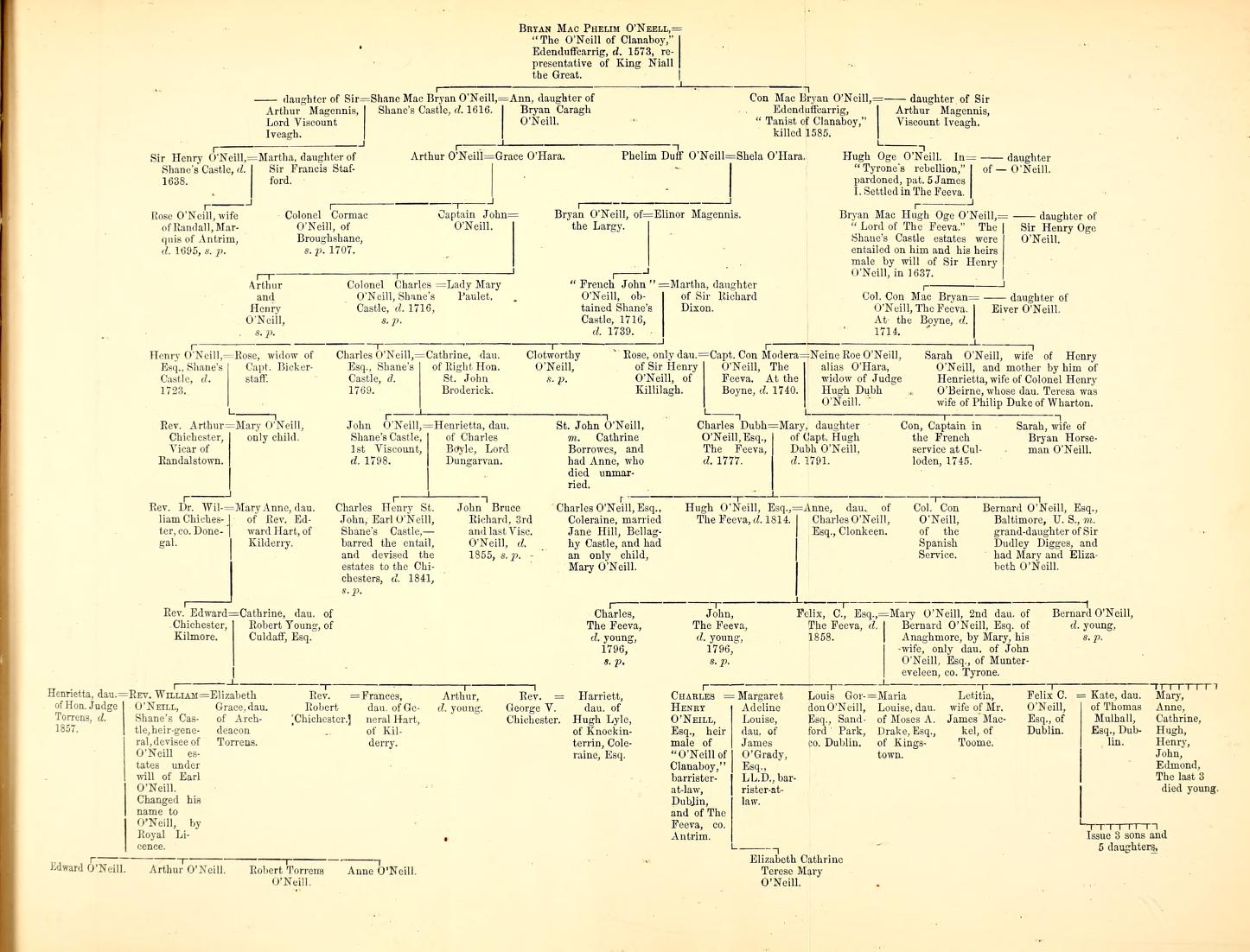 Family tree of the O'Neill Conroys of Newfoundland and Canada, descended from Elizabeth O'Neill.